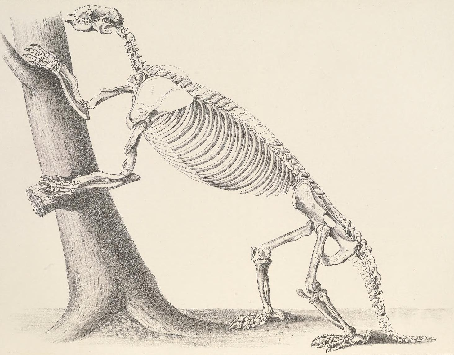 Reports of the Princeton University Expeditions to Patagonia, 1896-1899.. Princeton,The University,1901-32 [v. 1, 1903].